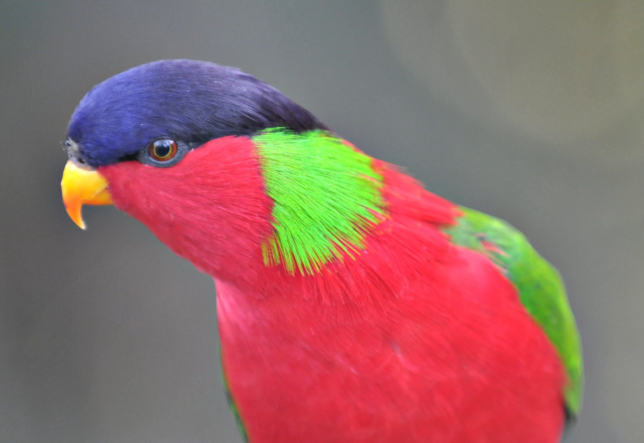 Collared Lory (Phigys solitarius) at San Diego Zoo, USA.